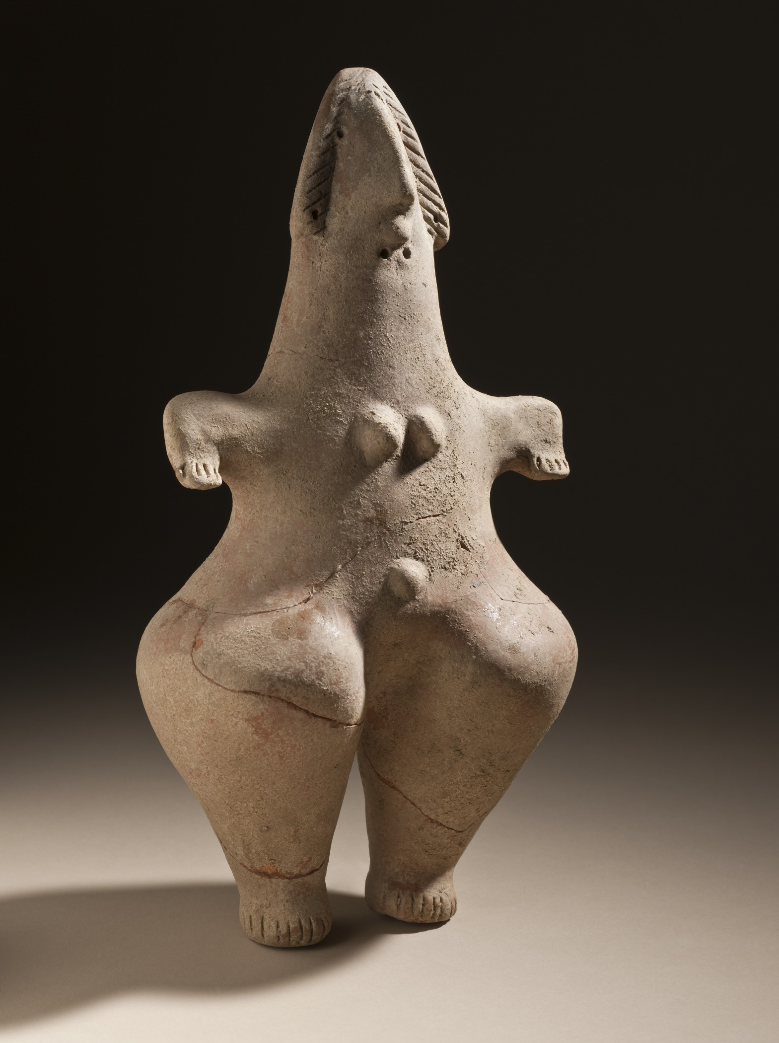 Sculpture Ceramic Height: 11 3/4 in. (29.85 cm) Gift of Alice A. Heeramaneck (M.75.62.30) Art of the Ancient Near East